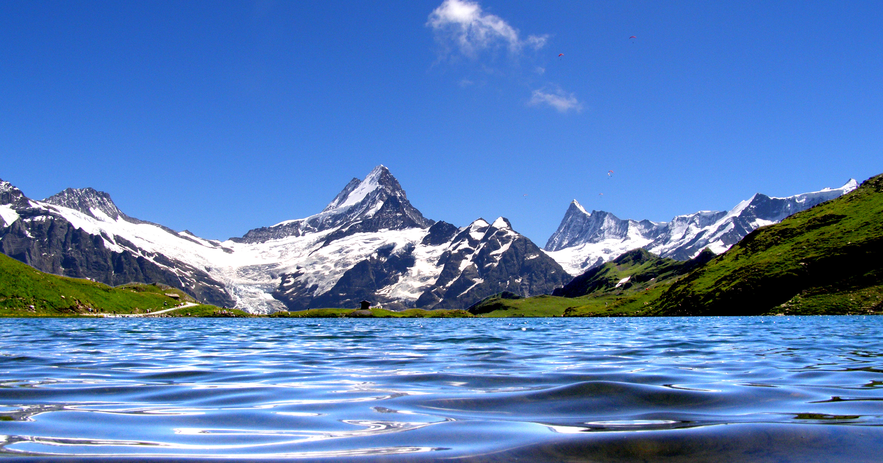 Famous view of the Schreckhorn from the Bachalpsee